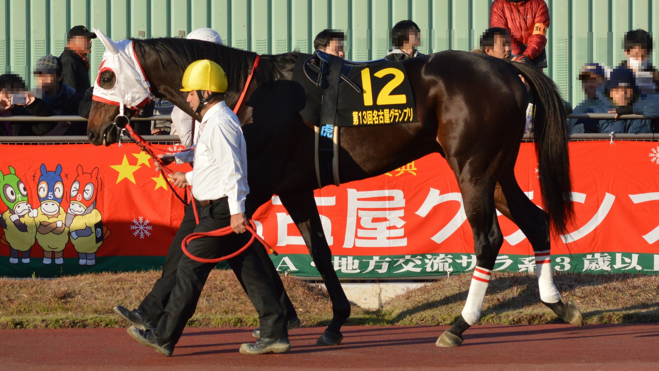 Japanese race horse Saimon Road at Nagoya racecourse.